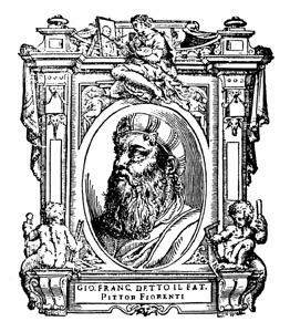 Illustratio from "Le Vite" by Giorgio Vasari, edition of 1568. For the artist portrayed see filename